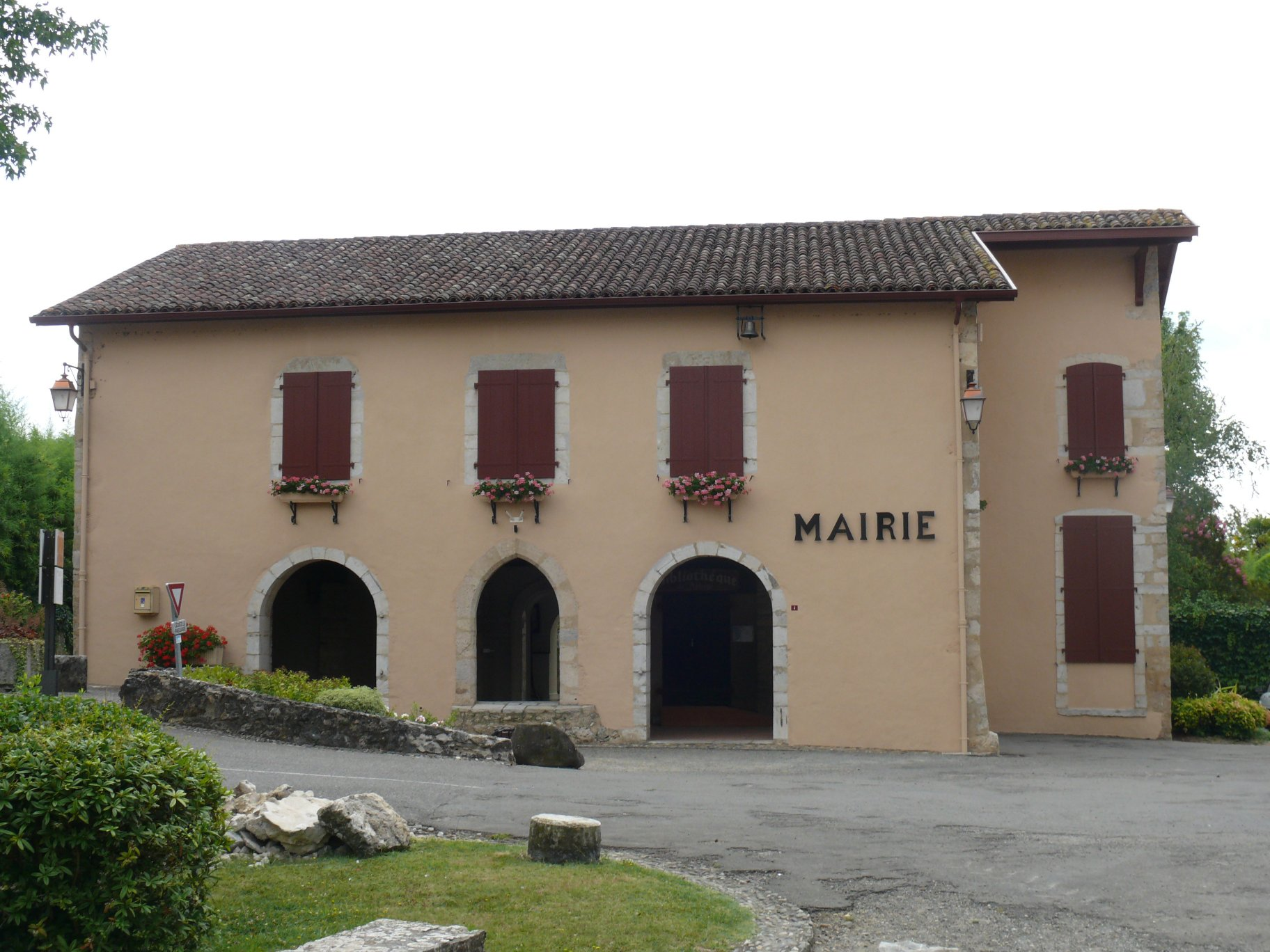 The townhall of Sorde-l'Abbaye (Landes, Pyrénées-Atlantiques, France).